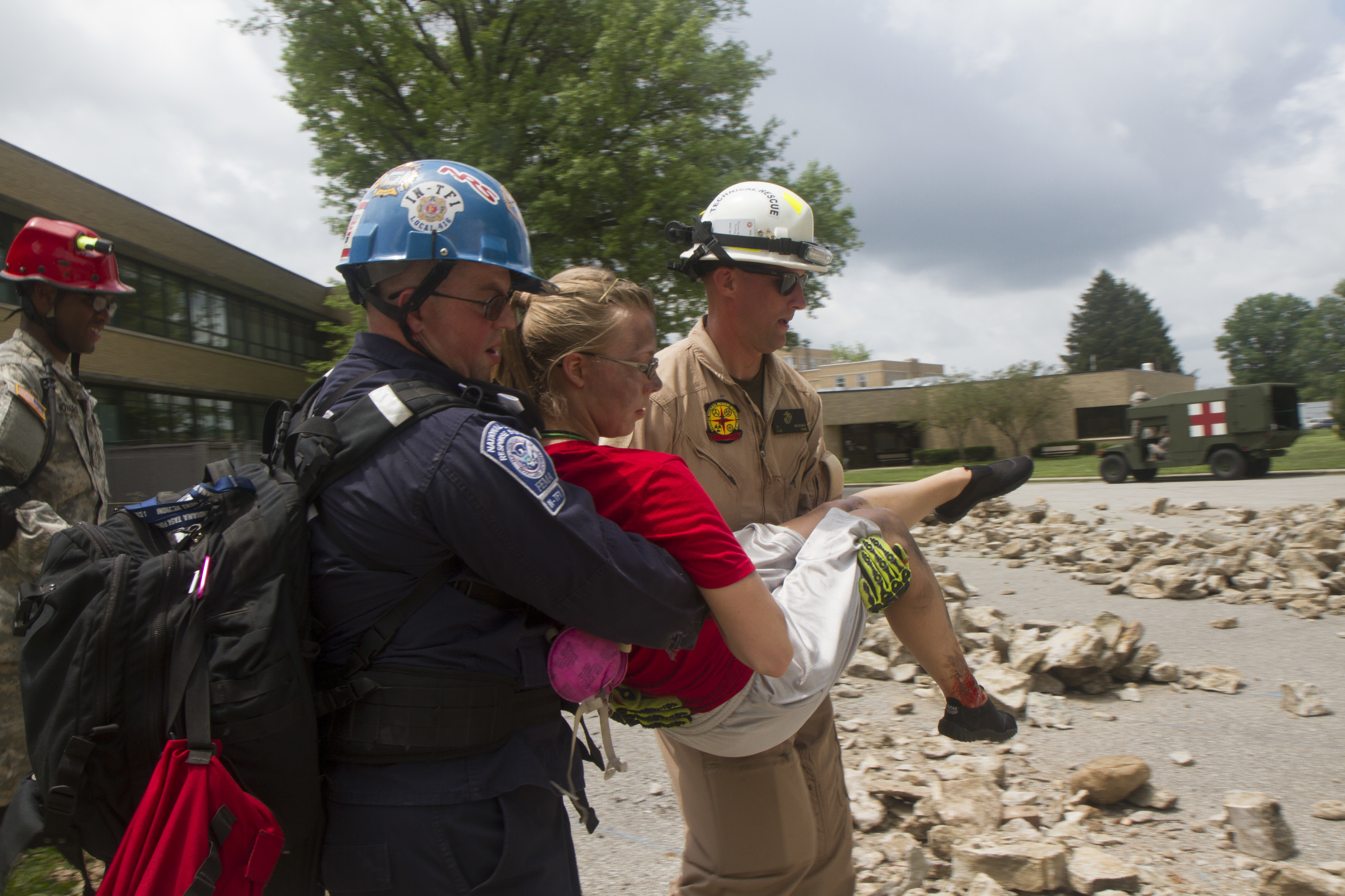 United Front 15 participants carry a role player to a medical site to receive first aid care during the exercise at Muscatatuck Urban Training Center, June 23. Rescue workers from all over the world trained together on emergency response operations. (U.S. Army National Guard Photo by Pfc. Hannah R Clifton) Unit: 120th Public Affairs Detachment